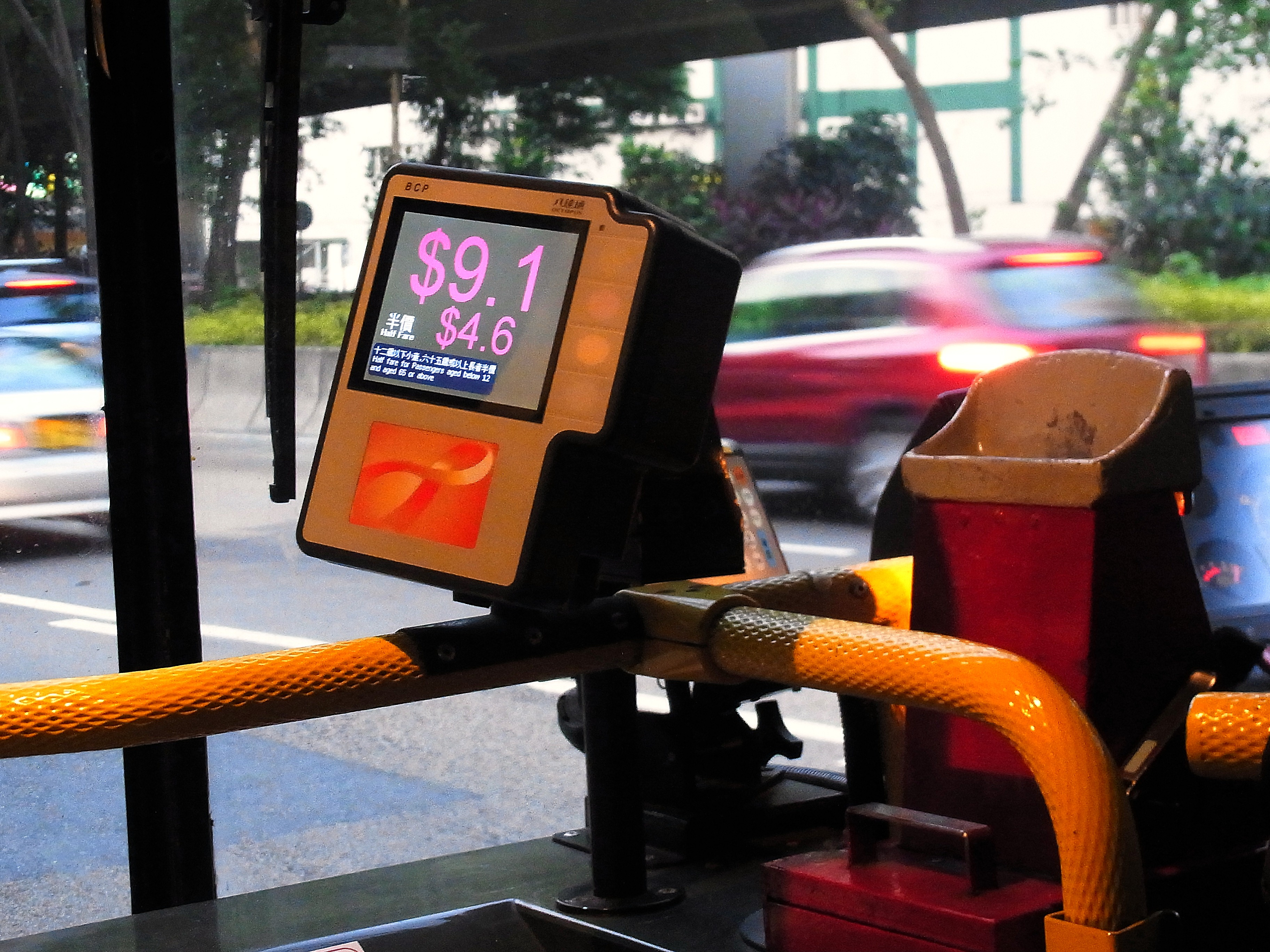 Second generation Octopus card reader in Hong Kong